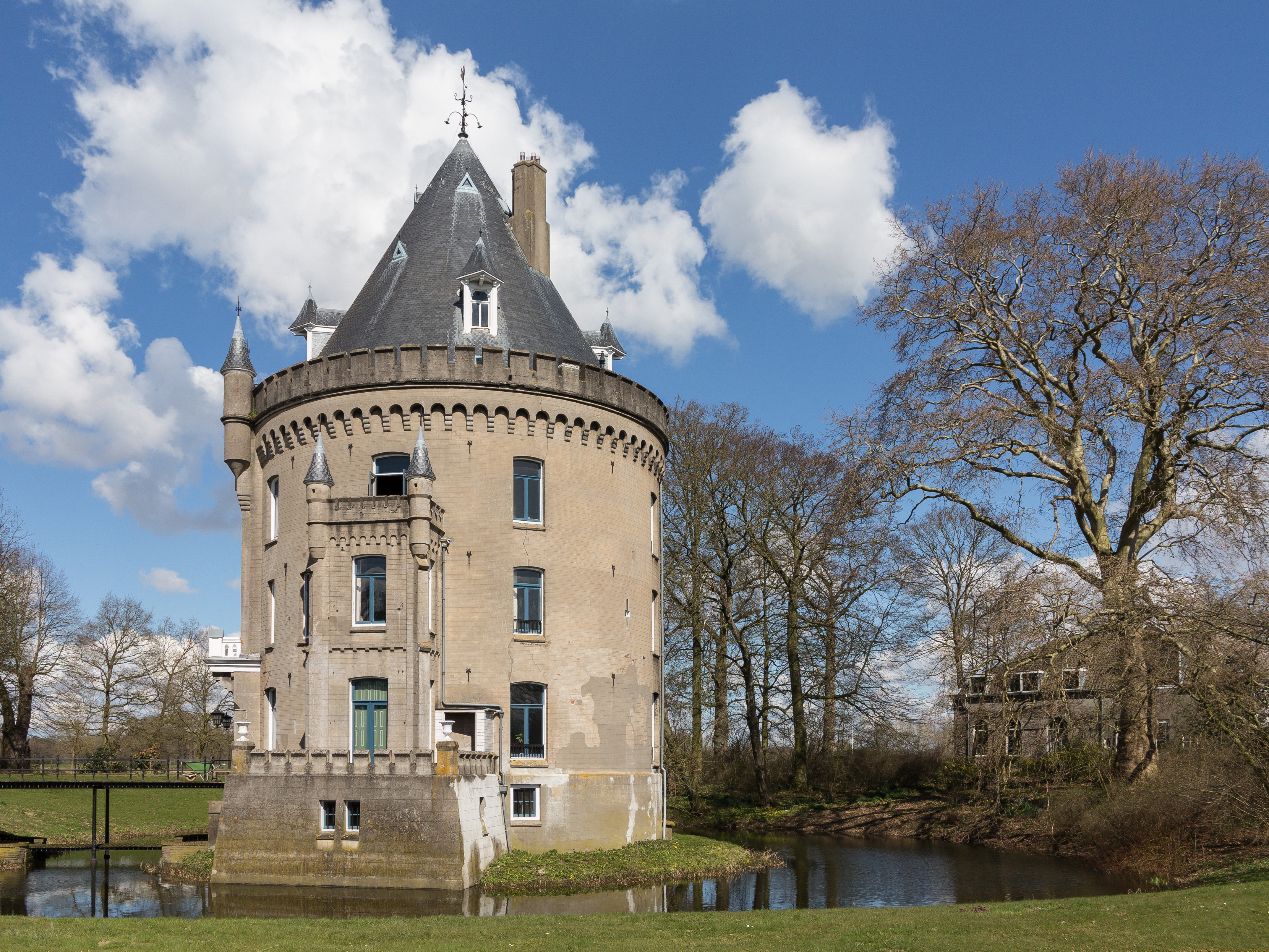 Spankeren, monumental building: de Gelderse Toren